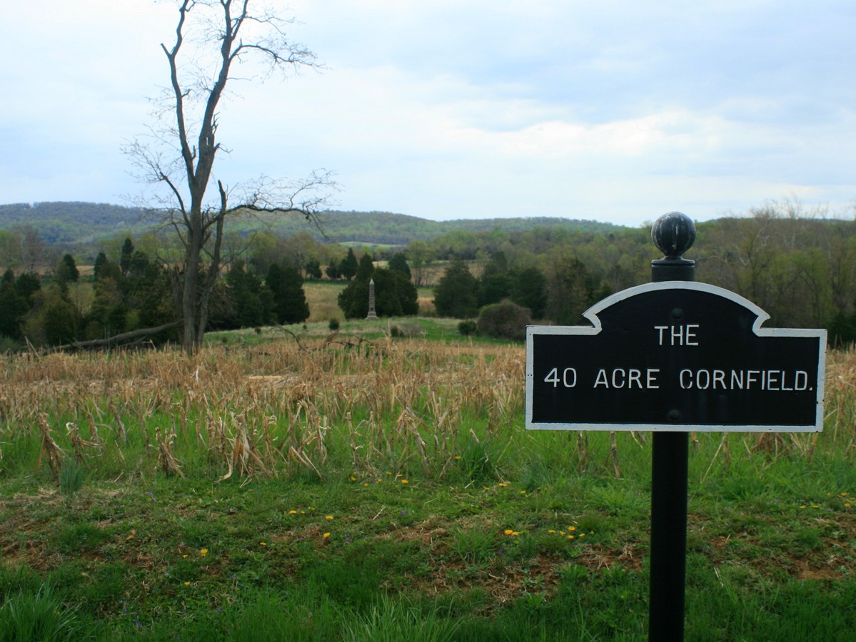 Antietam battlefield, 40 acre cornfield, site of A.P.Hil's division attack